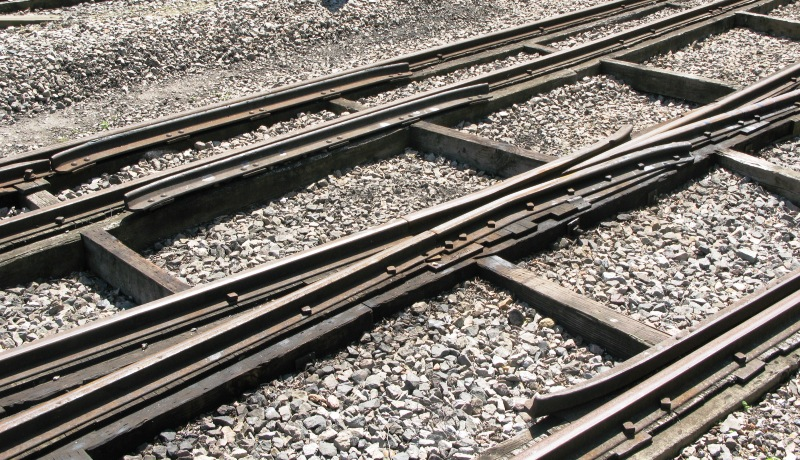 The crossing of a baulk road point at the Didcot Railway Centre, England.